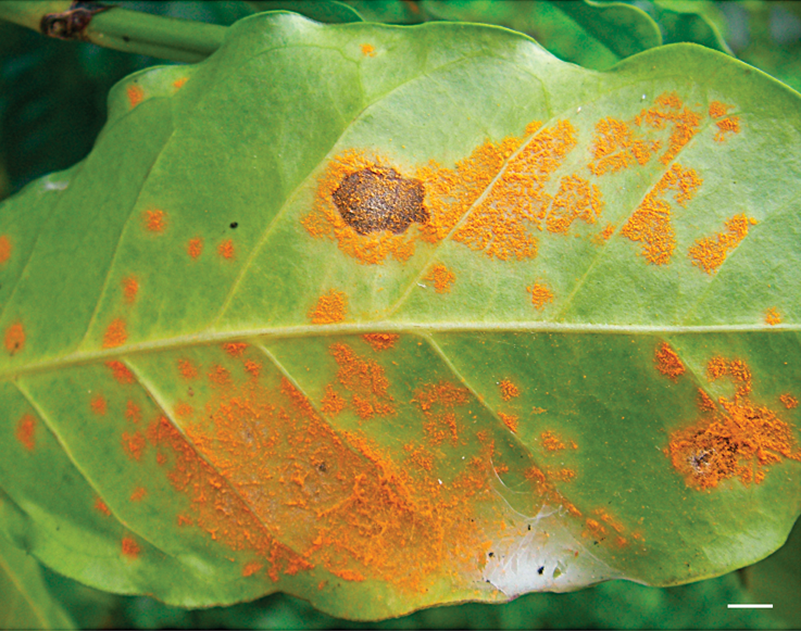 Leaf symptoms on abaxial surface (bar = 0.5 cm).